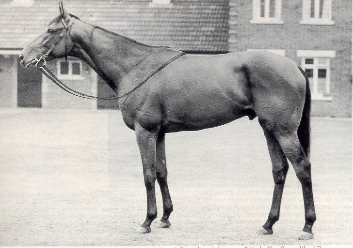 Ribot (GB)